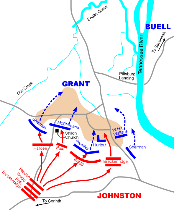 map of Shiloh battle 1/3